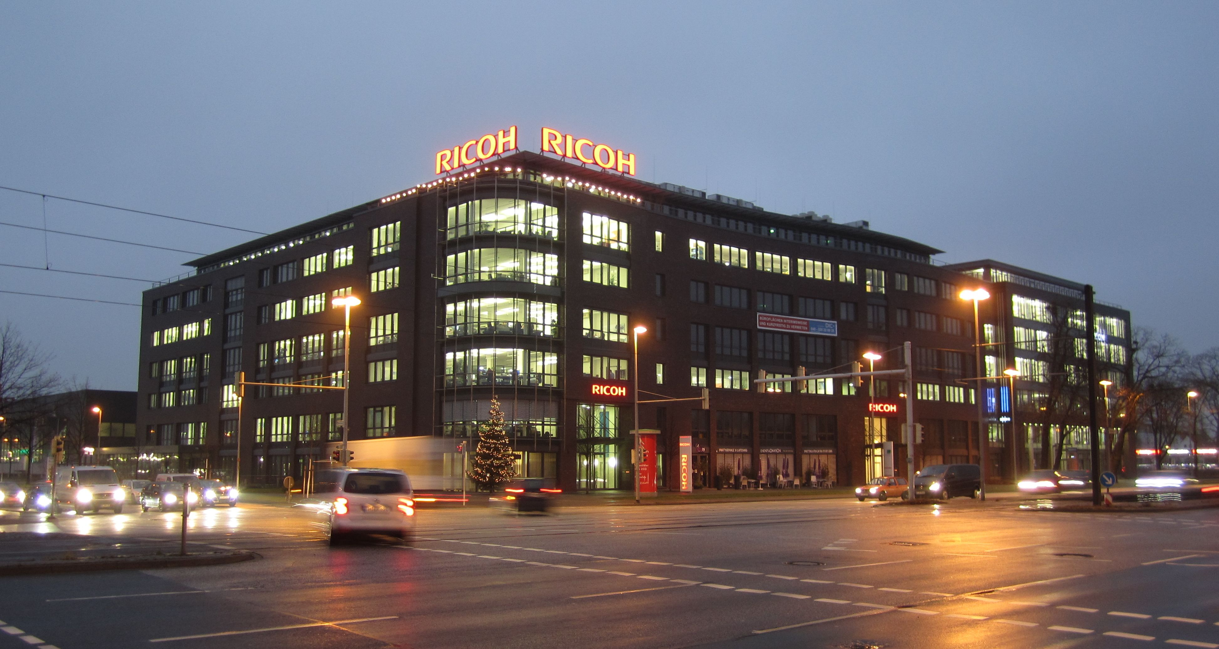 Ricoh Deutschland GmbH Building, Hanover, Germany.